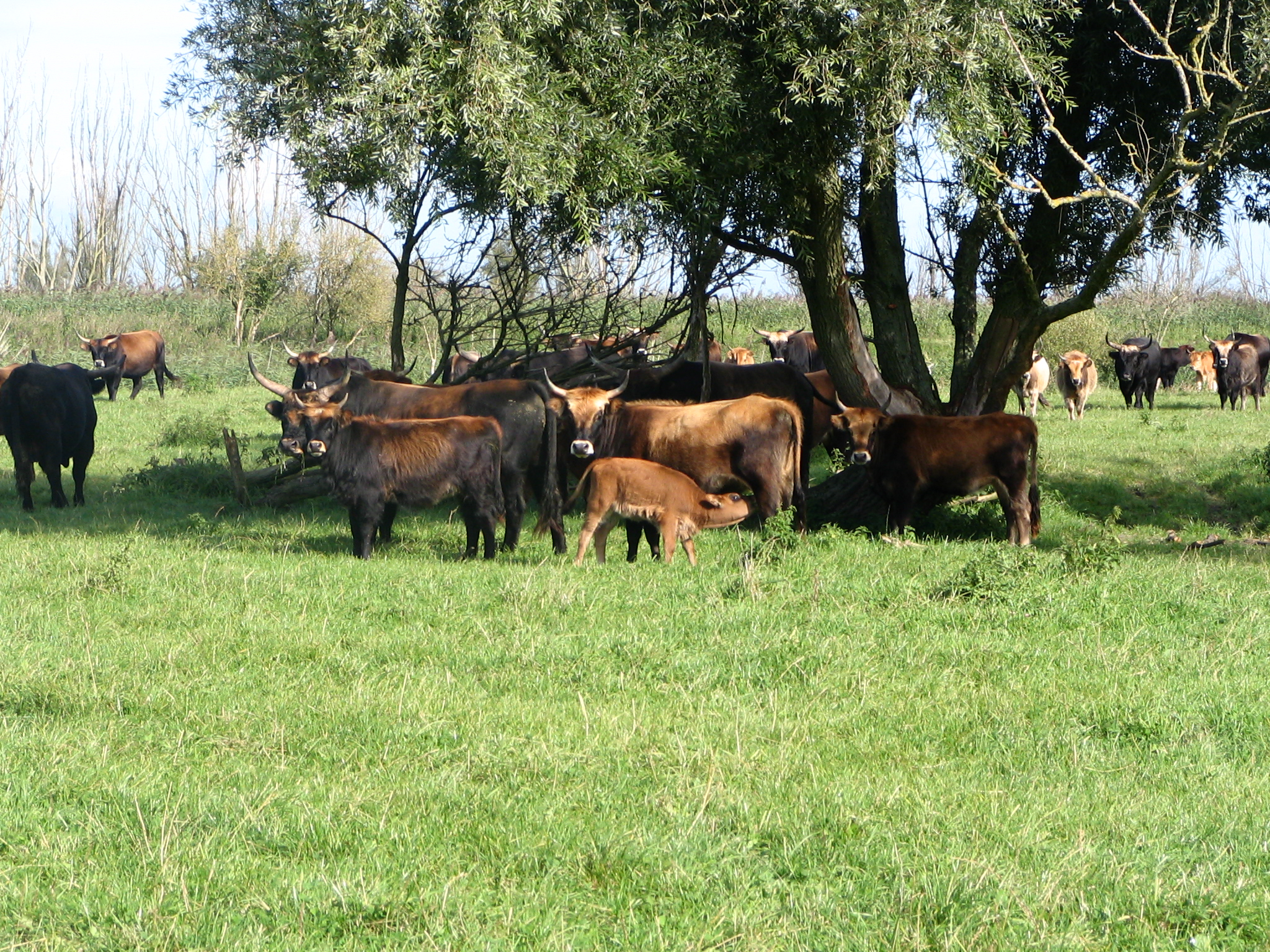 A Heck cattle group, in Oostvaardersplassen, a nature reserve in the province of Flevoland in the Netherlands.